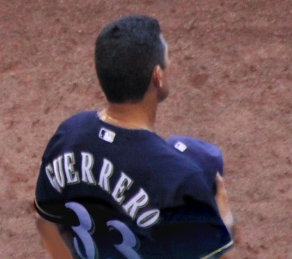 Milwaukee Brewers coach Mike Guerrero